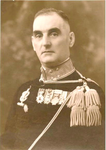 Generaal Boerstra